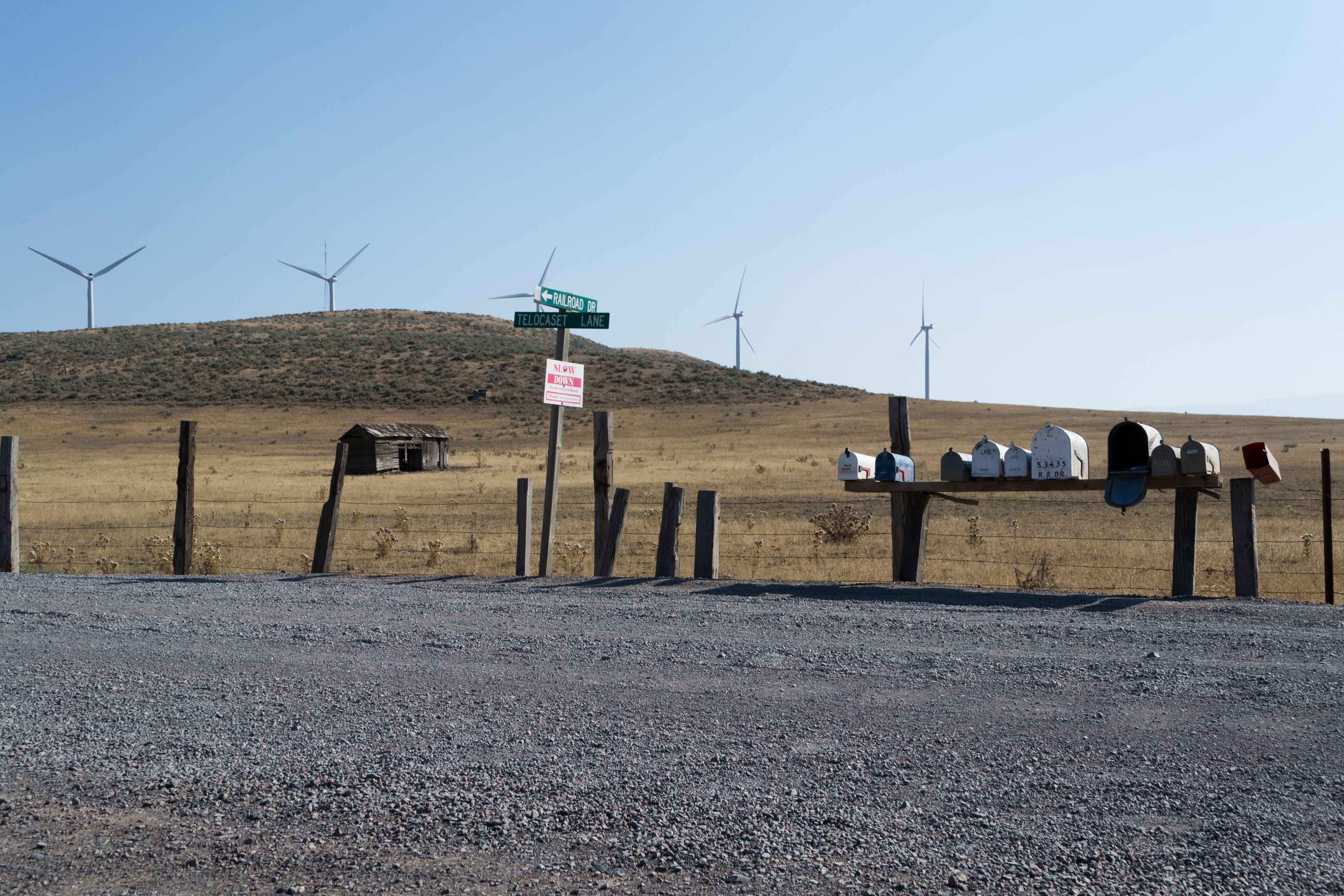 A wind farm and mailboxes are visible across the gravel road in Telocaset, Oregon